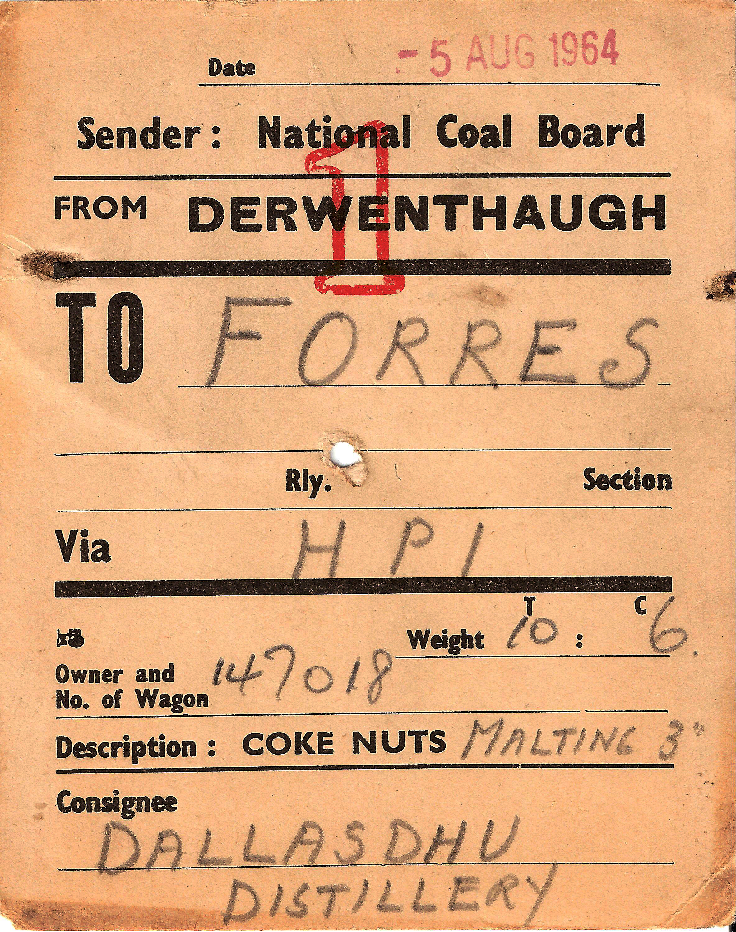 Wagon label from 1964 with instructions to deliver 10T 6CWT of 3" coke nuts from Derwenthaugh Coke Works near Newcastle upon Tyne to the sidings at Forres Station for Dallas Dhu Distillery.